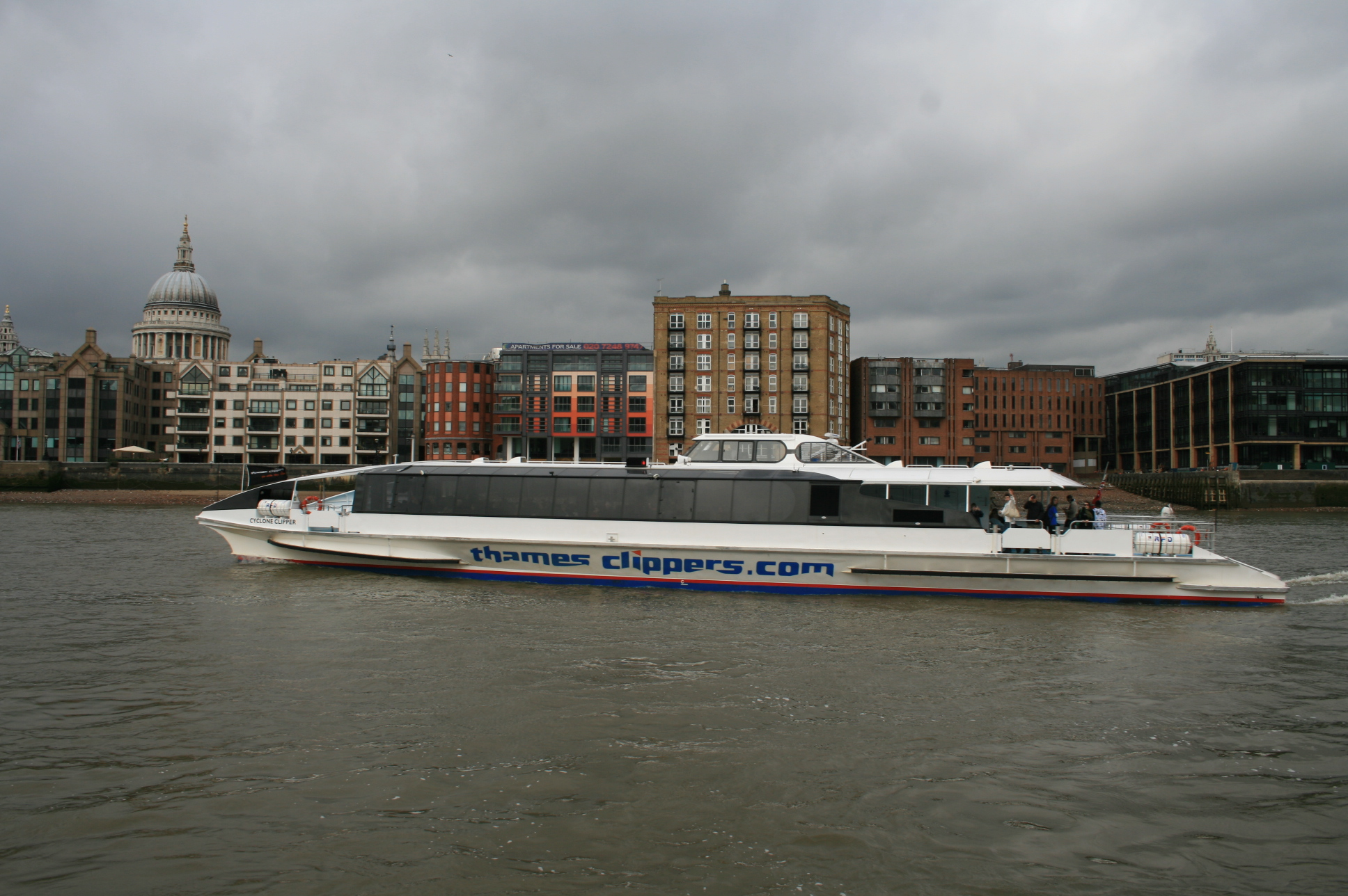 A Thames Clipper commuter catamaran on the River Thames, London, UK, passing St Paul's Cathedral The catamarans entered service in September/October 2007. Cyclone Clipper received Natwest advertising vinyls in July 2008, and the identification number 7 in September 2008. Built by: Brisbane Ship Construction, Australia, 2007 Length: 38m Beam: 9.30m Depth: 2.75m Passengers: 220 Engine: 2 x MTU V10 2000 Speed: 30 knots